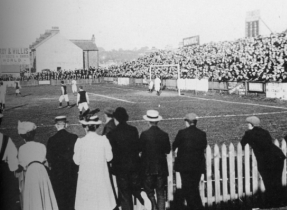 Kenilworth Road, home of Luton Town F.C., during 1907, their first year at the new ground.